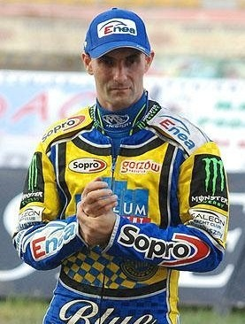 Tomasz Gollob during the presentation in season 2008